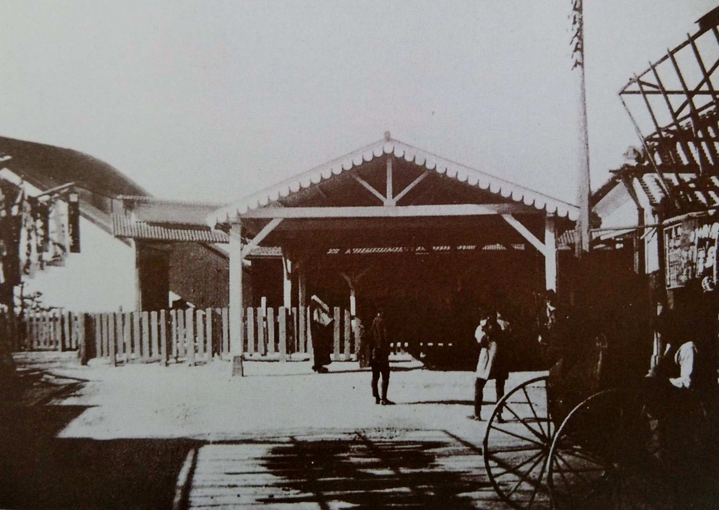 Kawasaki Station circa 1901